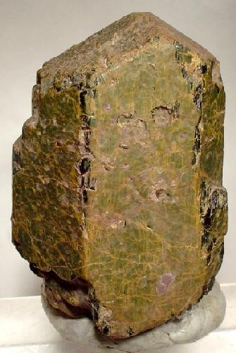 Augite Locality: Mount Teide, Tenerife, Santa Cruz de Tenerife Province, Canary Islands, Spain (Locality at ) A sharp, euhedral, complete all-around and pristine, brownish-green augite crystal from Spain, This CLASSIC, old-time piece with low lustre is from Mt. Teide, Tenerife, in the Canary Islands. Not often seen on the market and in this quality. 4.4 x 3.0 x 2.3 cm